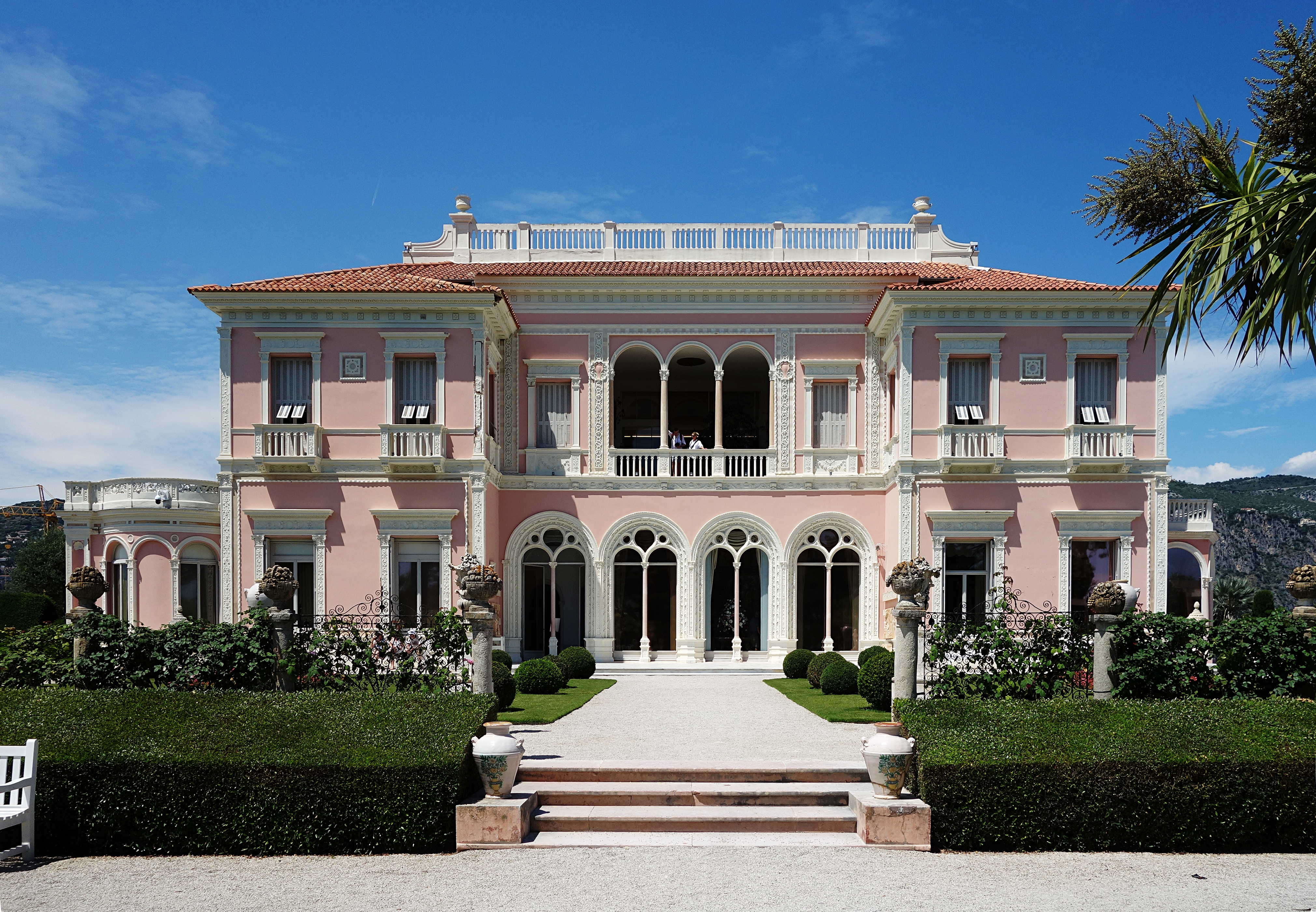 South facade of villa Ephrussi de Rothschild.